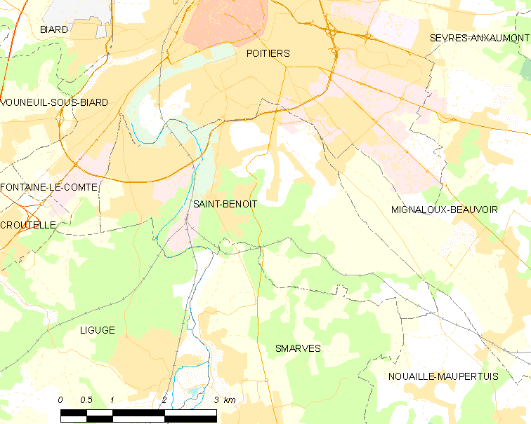 Map of French municipality Saint-Benoît